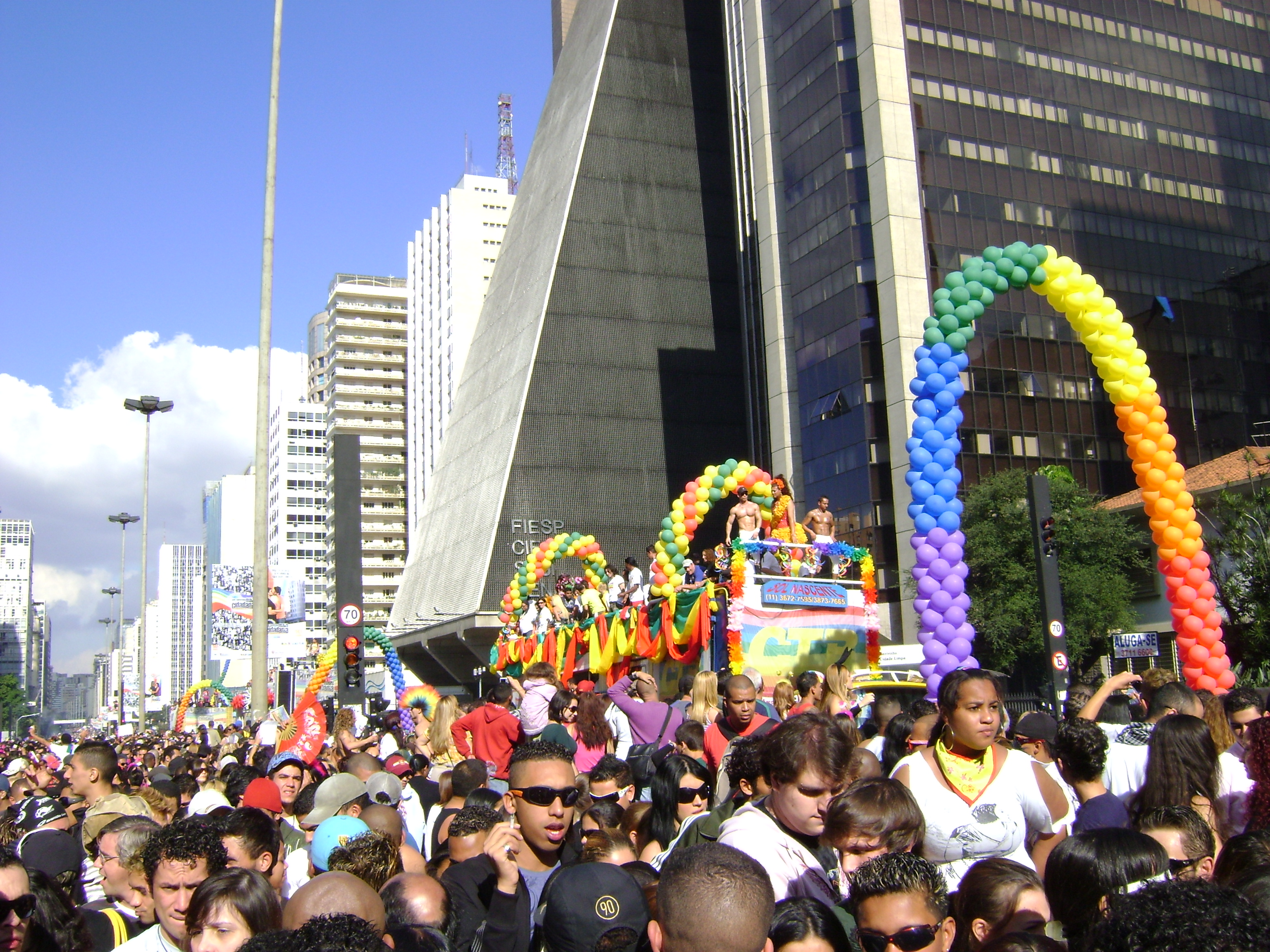 2009 Gay Pride in São Paulo